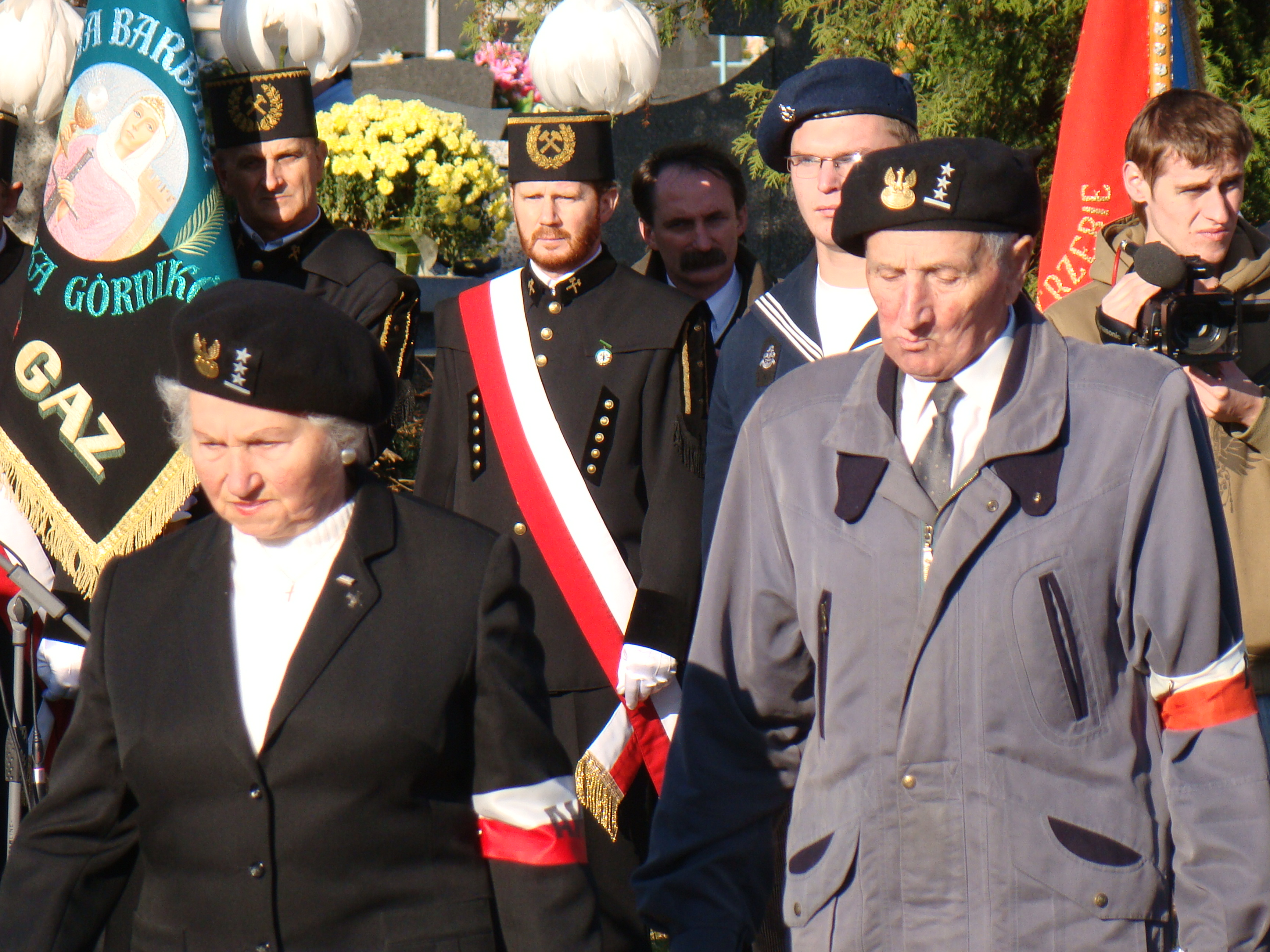 Polish resistance fighters. Sanok. 2008.